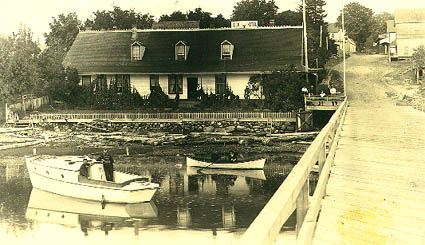 The Elk Hotel, Comox BC Canada, built beside the port's new wharf by Joseph Rodello in 1877.